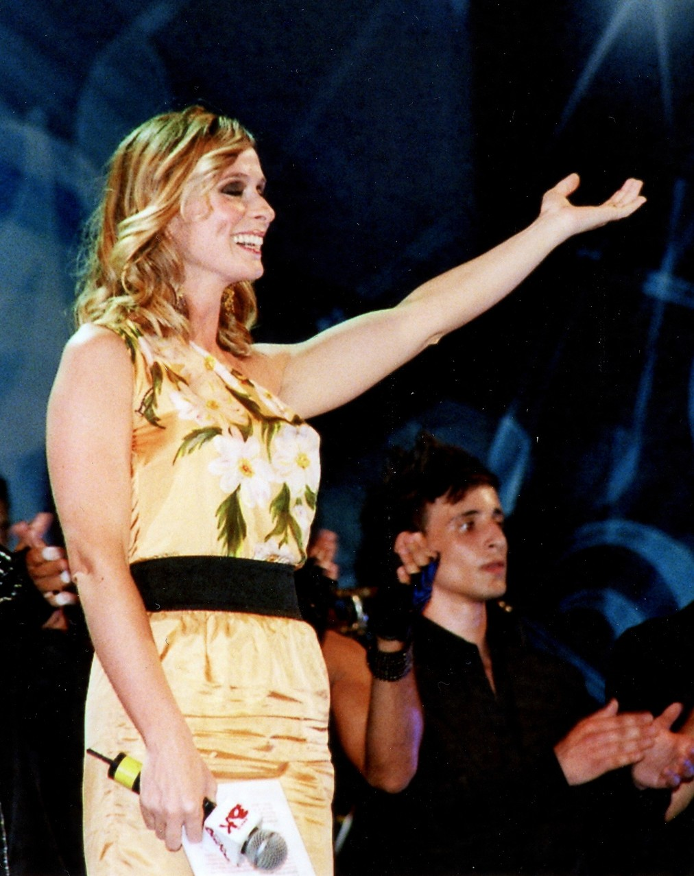 Serena Autieri FESTIVALSHOW - SUMMER 2012